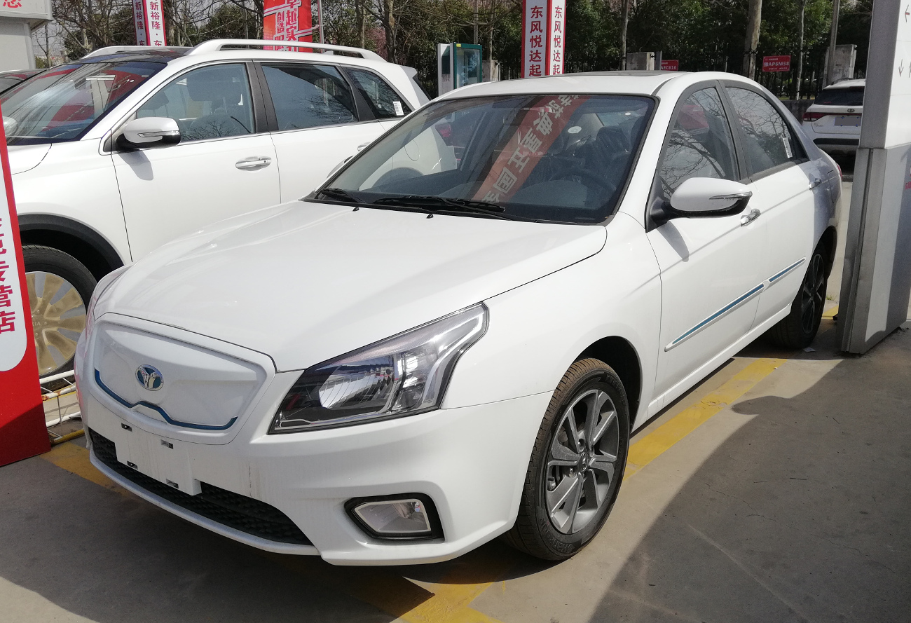 Horki 300E photographed in Zhengzhou, Henan province, China.